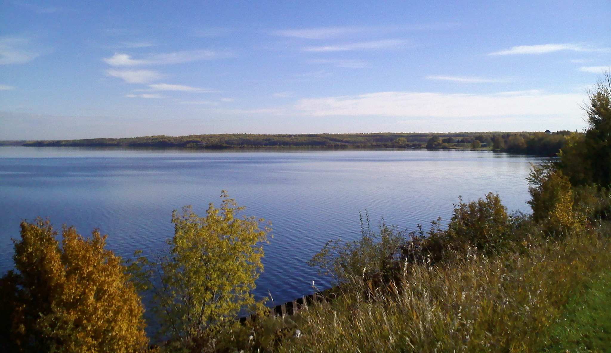 The southern shore of Lac la Biche as seen from Lac La Biche, Alberta. Taken during the fall, this would be a similar scene to what explorer David Thompson saw when he discovered the lake October 4, 1798.